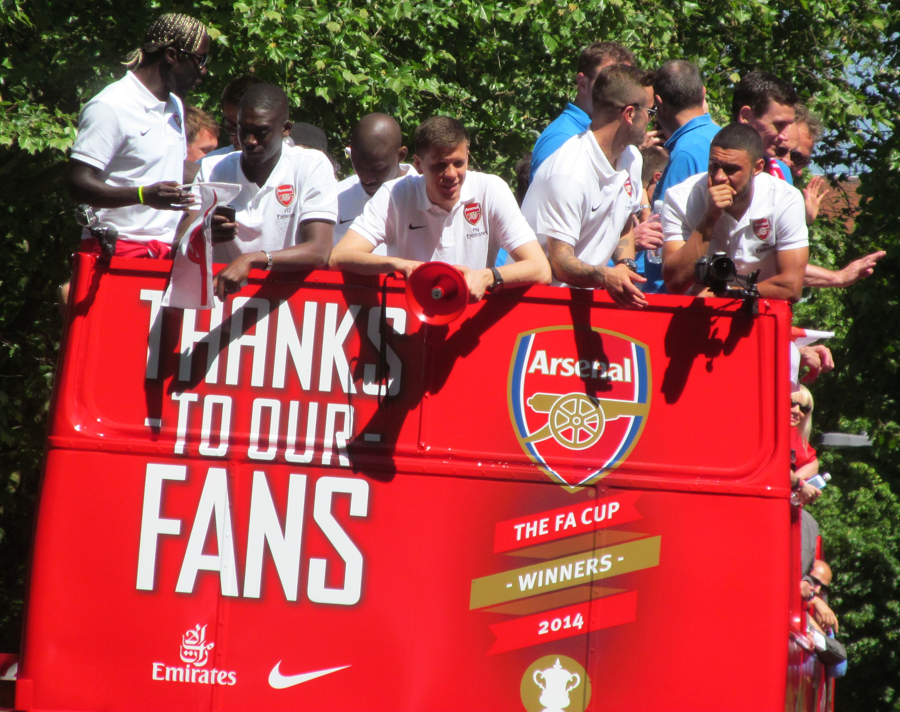 Arsenal FA Cup Victory Parade